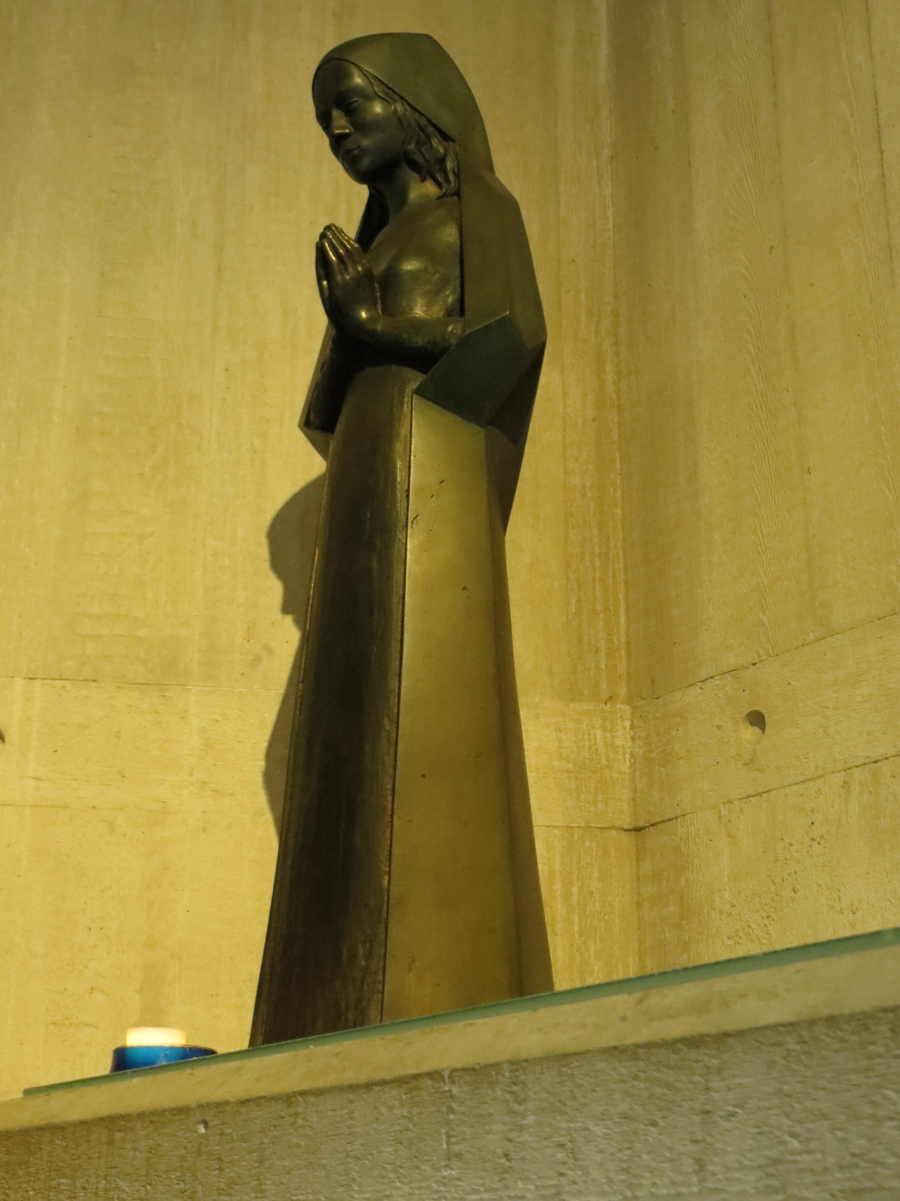 Clifton Cathedral, Clifton Park, Bristol BS8 3BX, UK